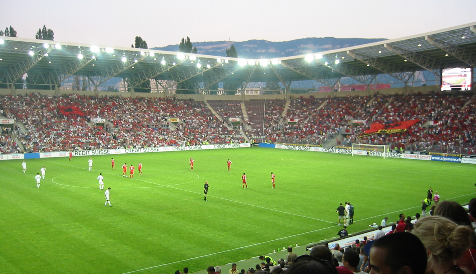 Albanian (white shirts) and Swiss (red) national soccer teams at the kick-off of the qualification game for Euro 2004 in Geneva, Stade de Genève, on June 11, 2003. Switzerland won 3-2.